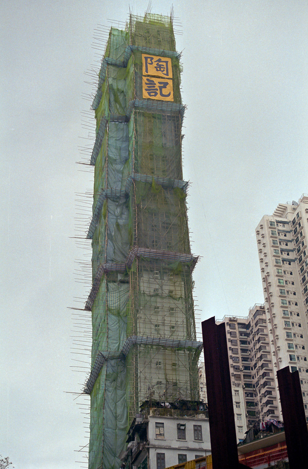 Bamboo Scaffolding